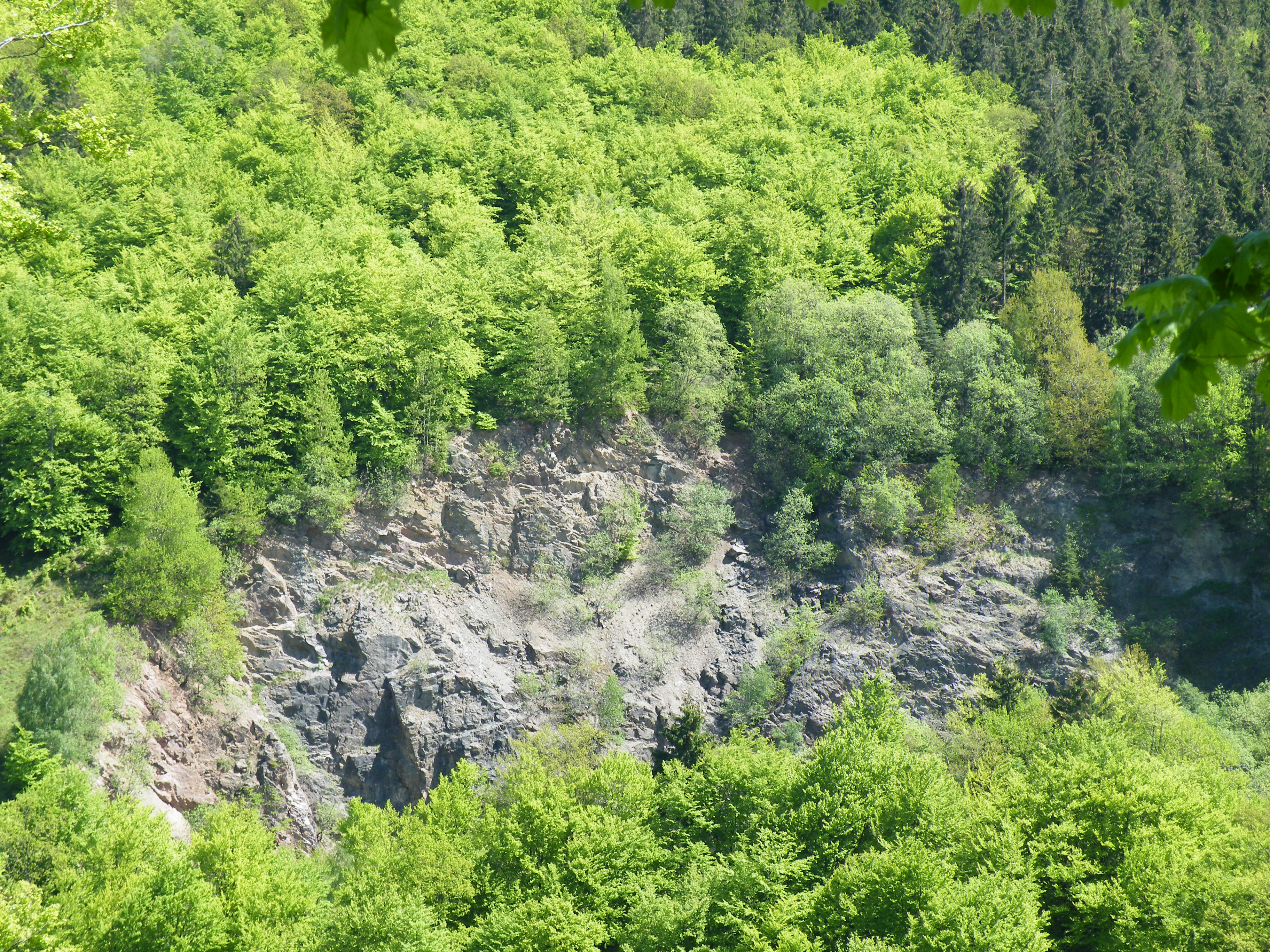 Quary Hansenberg near Brilon-Messinghausen (Germany).